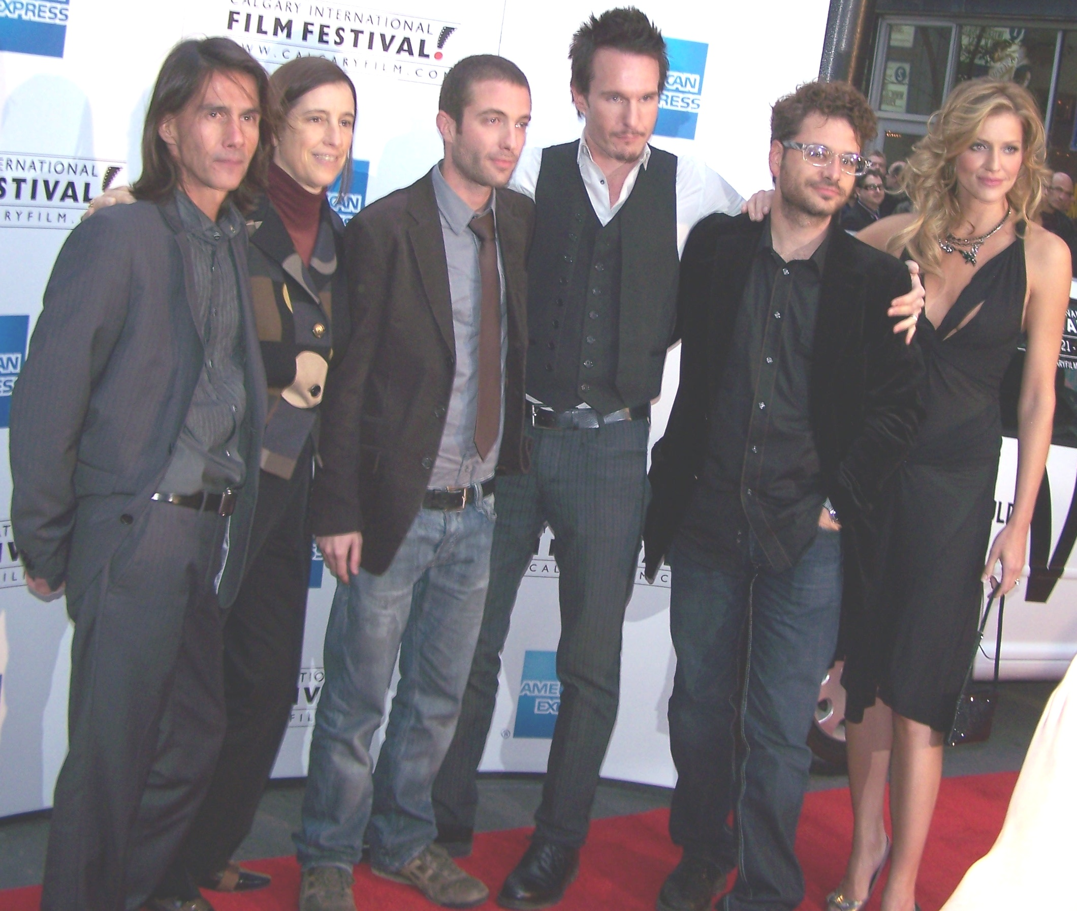 Taken on the red carpet at the gala showing of Walk All Over Me during the Calgary International Film Festival. The film was shown at the Uptown Stage at 612 8th Avenue SW, Calgary, Alberta, Canada. People in the picture (left-to-right), and there role in the film Walk All Over Me, are: Lothaire Bluteau - Plays Rene Carolyn McMaster - Producer Jacob Tierney - Plays Paul Michael Eklund - Plays Aaron Robert Cuffley - Director Tricia Helfer - Plays Celene